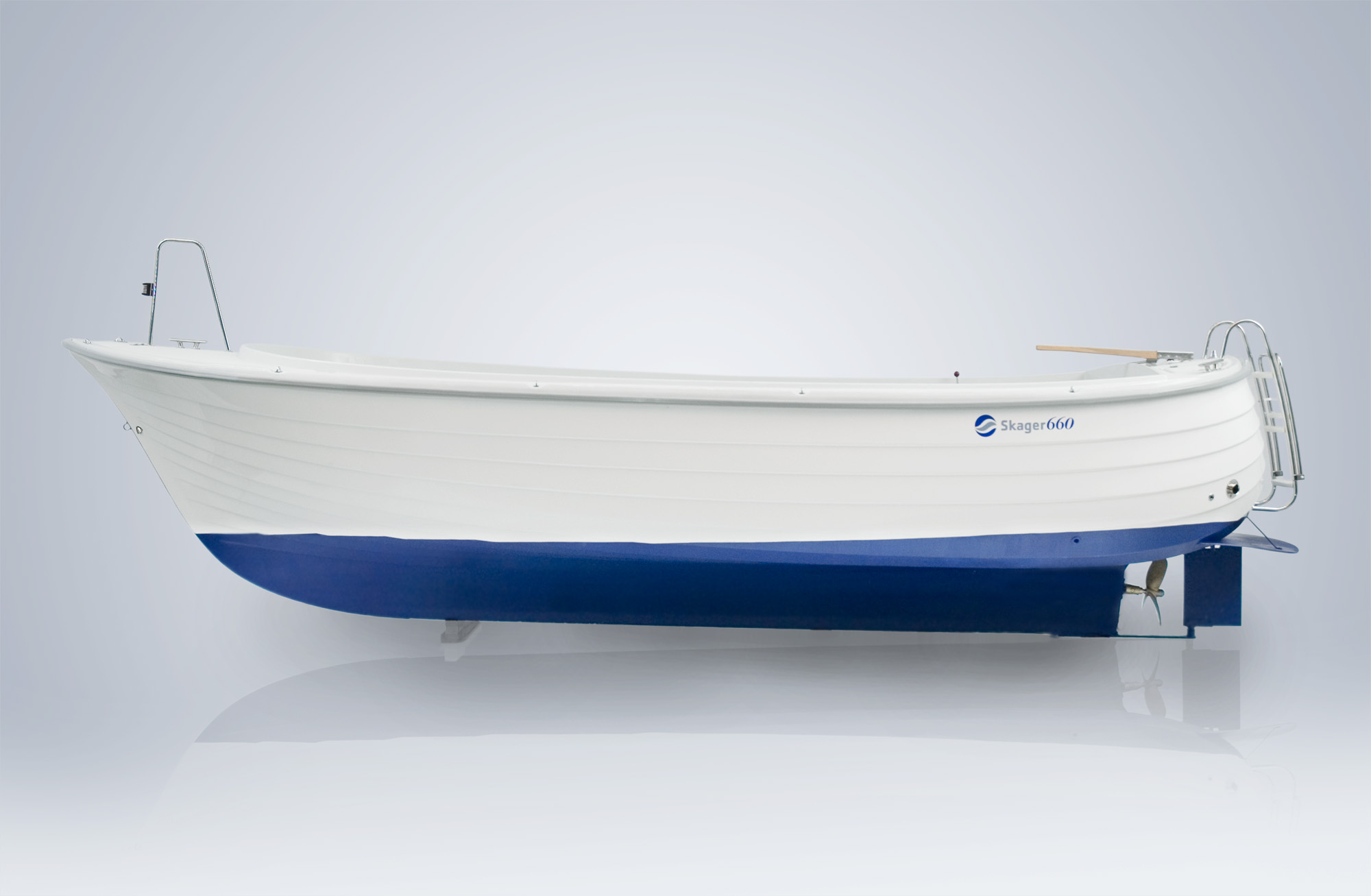 Norwegian Skager 660